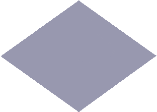 Formation Patch of Atlantic Command, Canadian Army, WW2